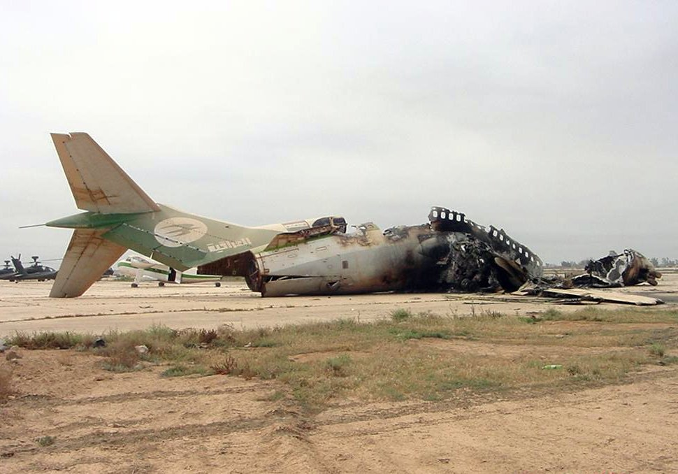 Iraq Airways Boeing 727-200, Baghdad International Airport(BIAP) bombed by American Forces. Iraqi Airways, also known as Air Iraq, is the national carrier airline of Iraq, based in Baghdad and it is also the oldest airline of the Middle East. It operates domestic and regional services. Its main base is Baghdad International Airport. Iraqi Airways is a member of the Arab Air Carriers Organization. The Iraqi Airways fleet consists of the following aircraft (as of November 2007): 1 A300B4-2C (operated for Govt.) 2 Boeing 727-200 (operated by Teebah Airlines) 2 Boeing 737-200 (1 operated by Teebah/stored at Amman, 1 operated by Dolphin Air) Iraqi Airways has 5 Boeing 737-400 aircraft on order. The Boeing 737-400s will be acquired on lease. Former fleet: Iraqi Airways fleet was composed of the following aircraft types from the 1970s until 2003, some of these aircraft were stored in Amman, Beirut and Tehran during the 1990 Gulf war, air worthy ones operated a few Hajj flights during the 1990s: Antonov An-24 Boeing 707-320 Boeing 727-200 Boeing 737-200 Boeing 747-200 Boeing 747 SP (passenger and government) Ilyushin IL-76 cargo freighter Four Airbus A310-300 were also ordered in the late 1980s but war related sanctions prevented Iraq from getting them and they were never built. Post 2003 they also operated a single Boeing 767-200 and a 757-200 for a short while.